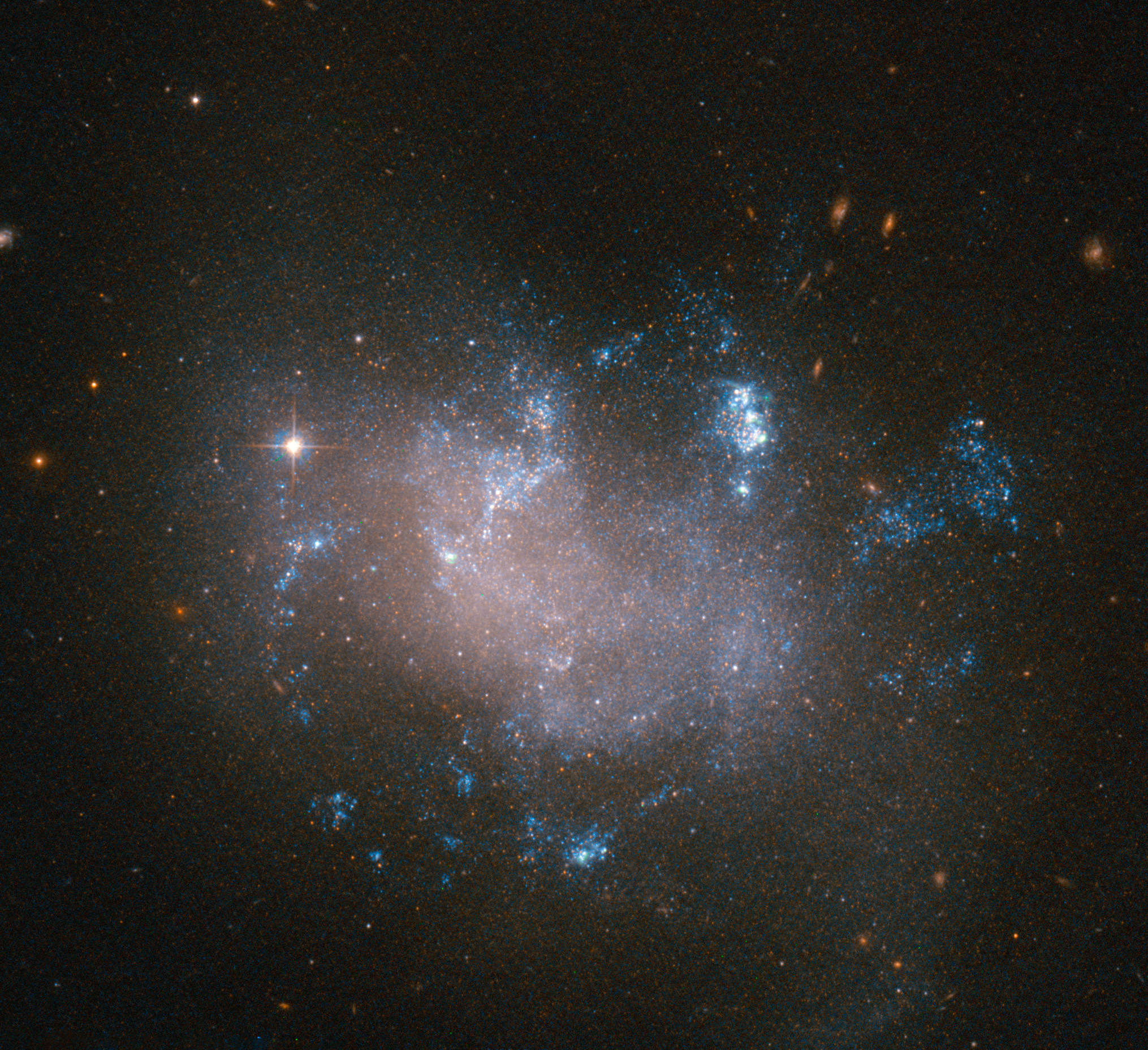 Glowing warmly against the dark backdrop of the Universe, this image from the NASA/ESA Hubble Space Telescope shows an irregular galaxy called UGC 12682. Located approximately 70 million light-years away in the constellation of Pegasus (The Winged Horse), UGC 12682 is distorted and oddly-structured, with bright pockets of star formation. In November 2008, 14-year-old Caroline Moore from New York discovered a supernova in UGC 12682. This made her the youngest person at the time to have discovered a supernova. Follow-up observations by professional astronomers of the so-called SN 2008ha showed that it was peculiarly interesting in many different ways: its host galaxy UGC 12862 rarely produces supernovae. It is one of the faintest supernovae ever observed and after the explosion it expanded very slowly, suggesting that the explosion did not release copious amounts of energy as usually expected. Astronomers have now classified SN 2008ha as a subclass of a Type Ia supernova, which is the explosion of a white dwarf that hungrily accretes matter from a companion star. SN 2008ha may have been the result of a partially failed supernova, explaining why the explosion failed to decimate the whole star.